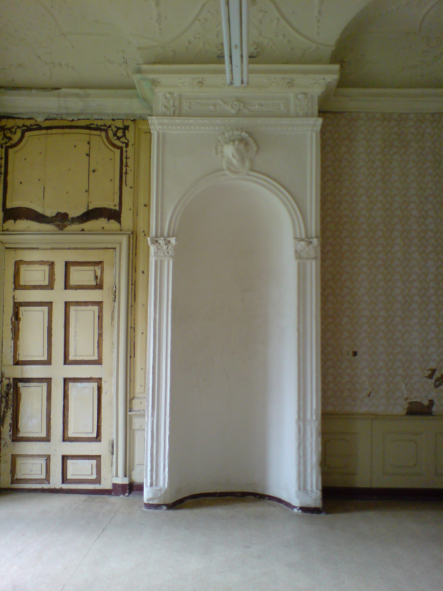 Bothmer Castle